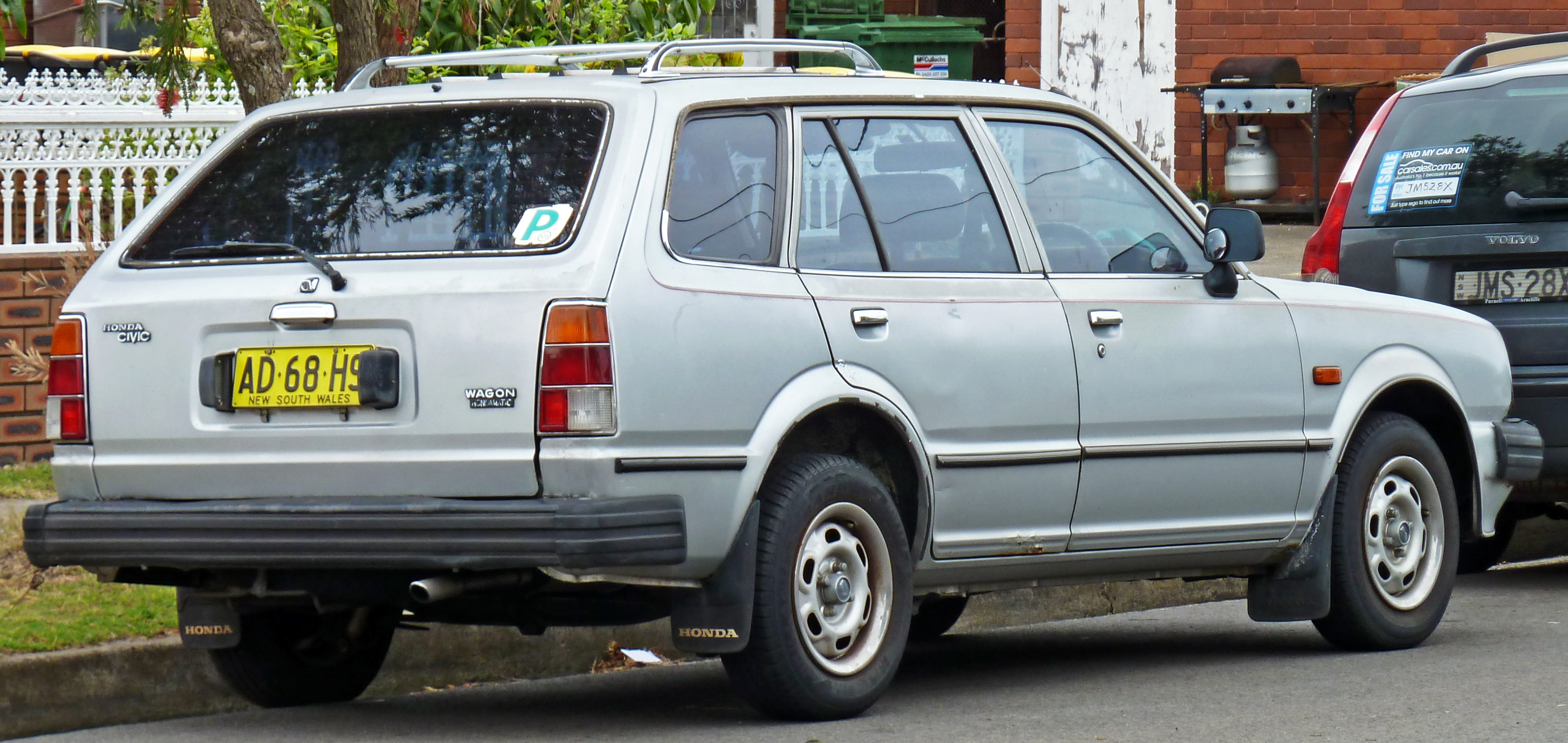 1981 Honda Civic station wagon. Photographed in Sandringham, New South Wales, Australia.